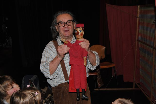 Henrik Kemény with his most famous puppet: "Vitéz László"